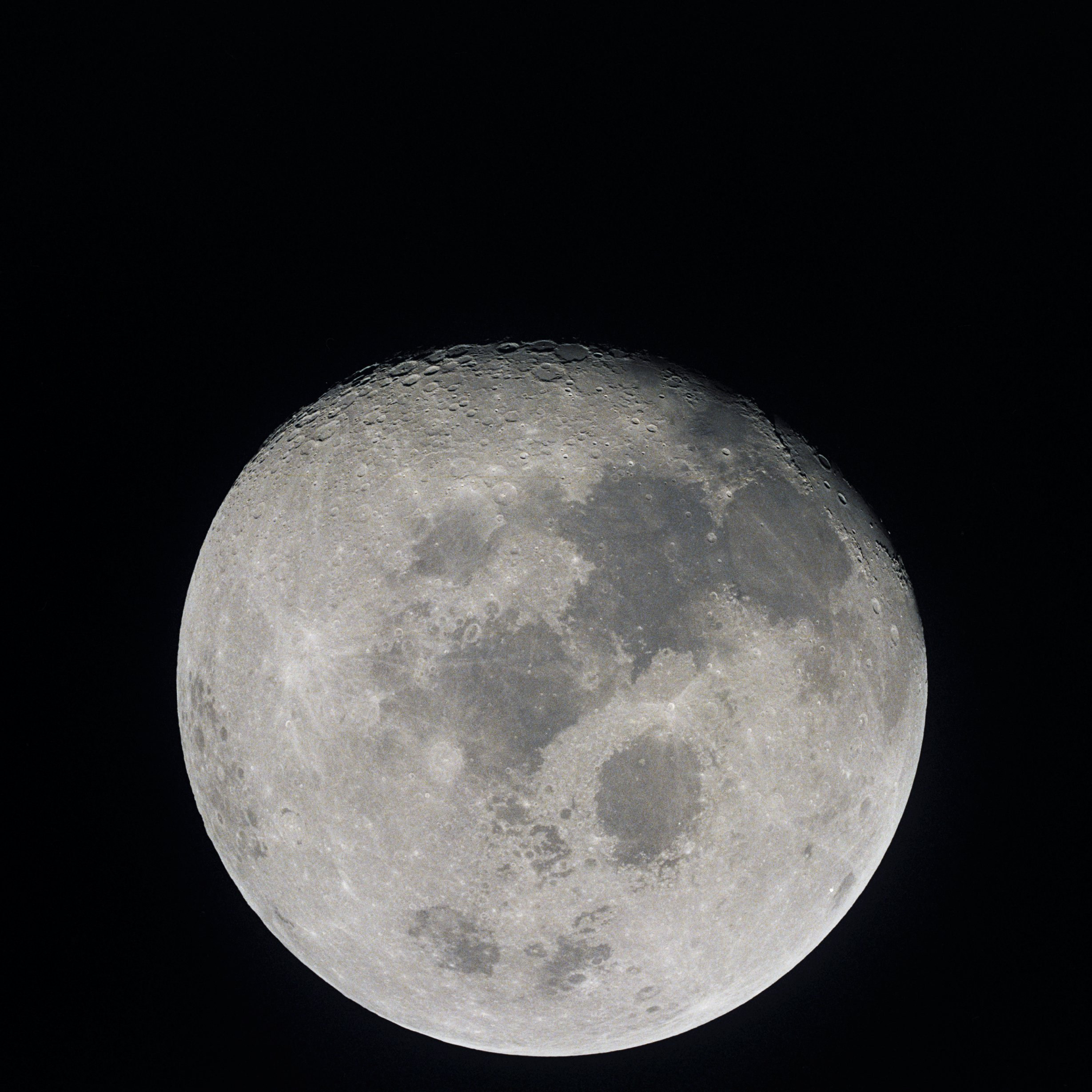 The moon seen from Apollo 10 soon after TEI burn to leave lunar orbit and commence the coast back to Earth.